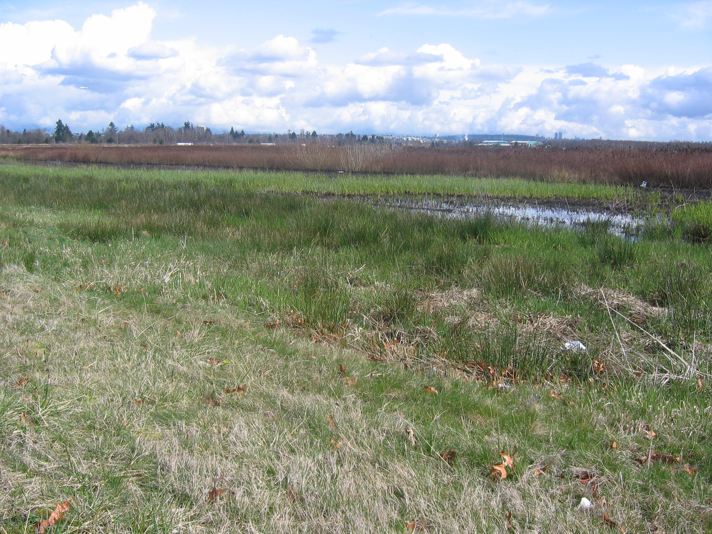 The Garden City Lands in Richmond, British Columbia, Canada. Photographed from the intersection of Garden City Road and Westminster Highway facing Northeast.